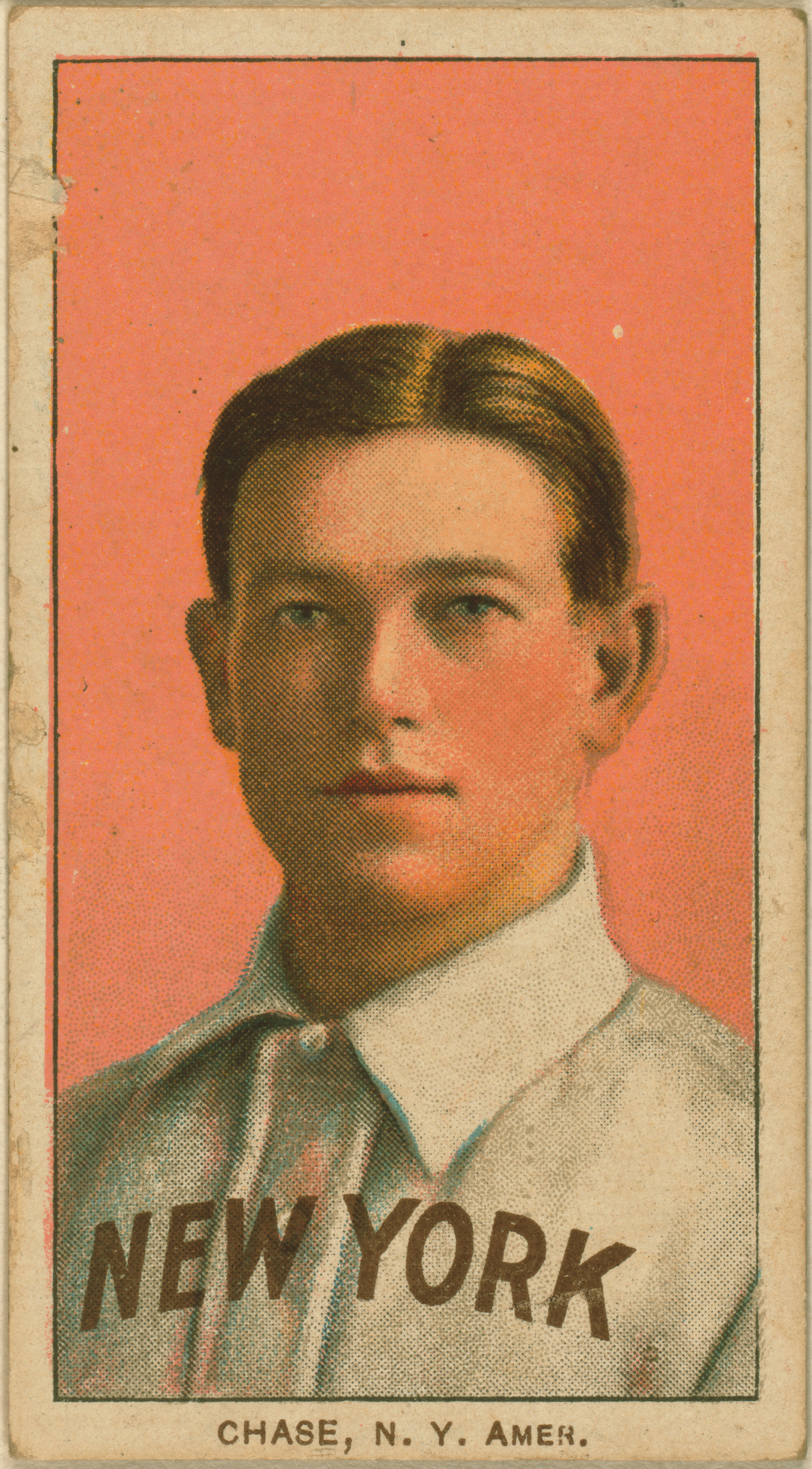 T206 White Borders 1909-11 From the Baseball Cards Collection at the Library of Congress More 206 White Borders | More vintage baseball cards [PD] This picture is in the public domain